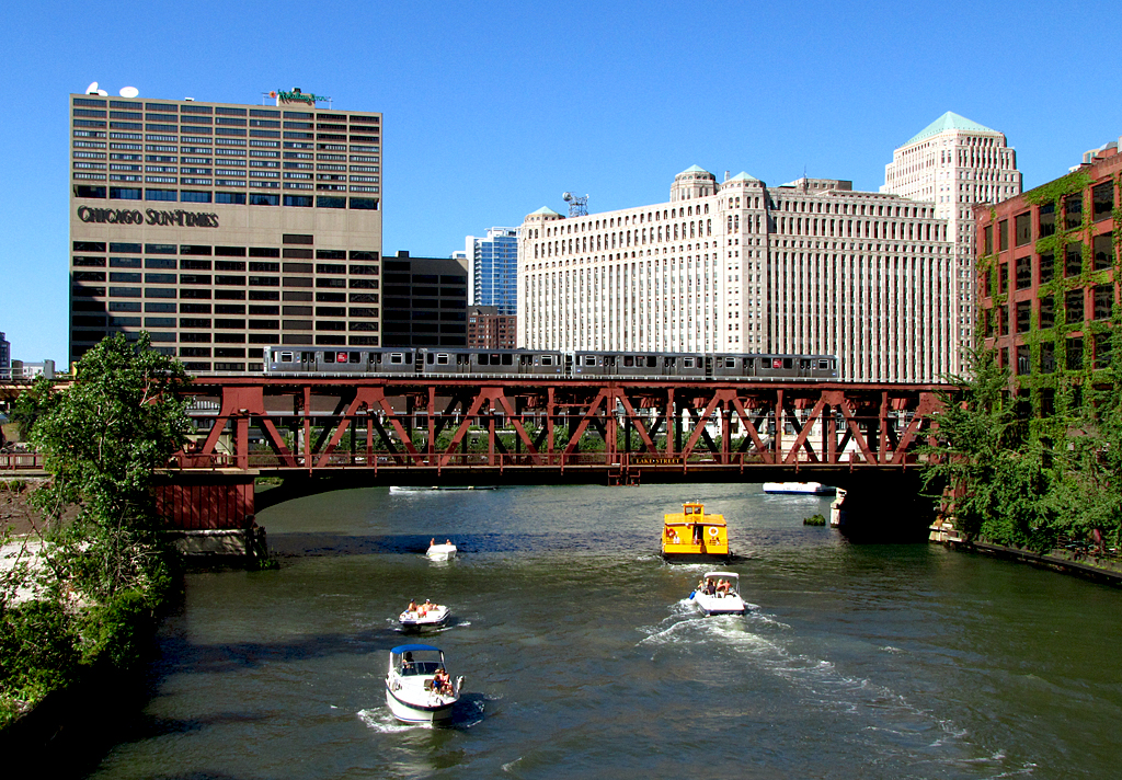 A inbound Pink Line train to the Loop crosses the Chicago River at Lake Street.